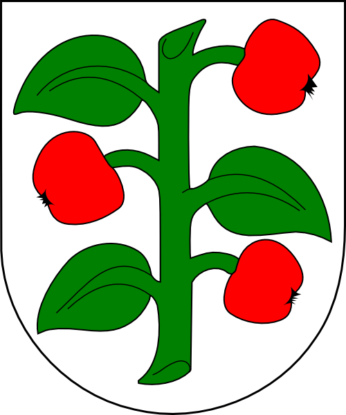 Coat of arms (shield only) of Martin Josef Říha, bishop of České Budějovice, Czech Republic (1885 - 1907). Identical with arms of Josef Antonín Hůlka.